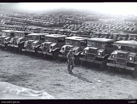 Army Vehicle Park North Ryde 1945